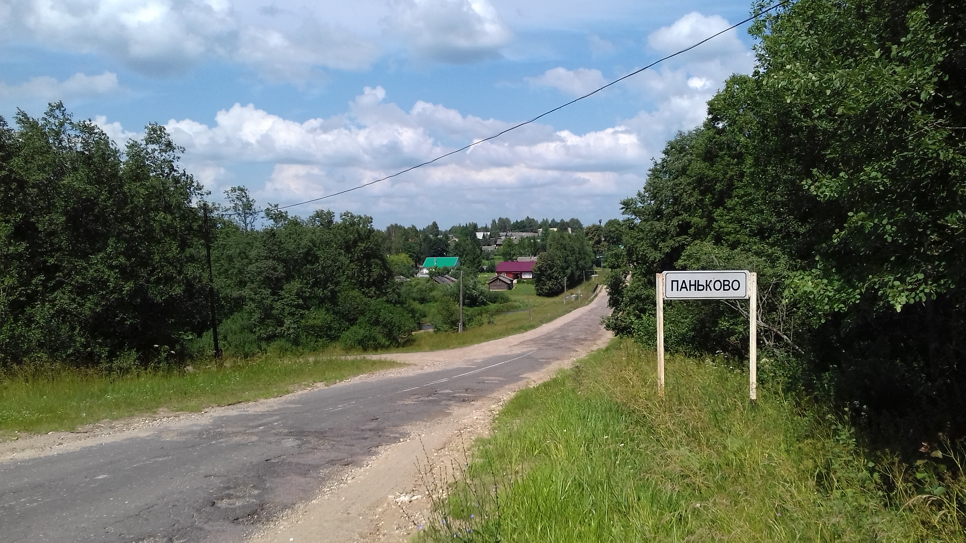 Pan'kovo village, Staritsky District, Tver Oblast, Russia